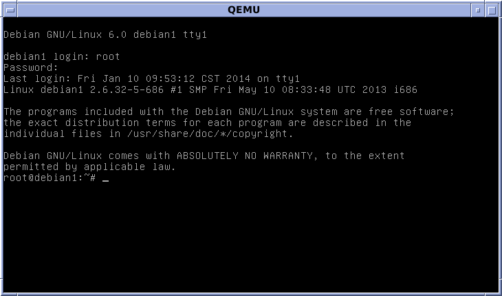 Debian 6.0 console login and welcome message. i386 architecture, running in a QEMU VM.